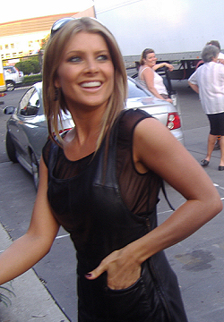 Natalie Bassingthwaighte at Sydney's Horden Pavilion.